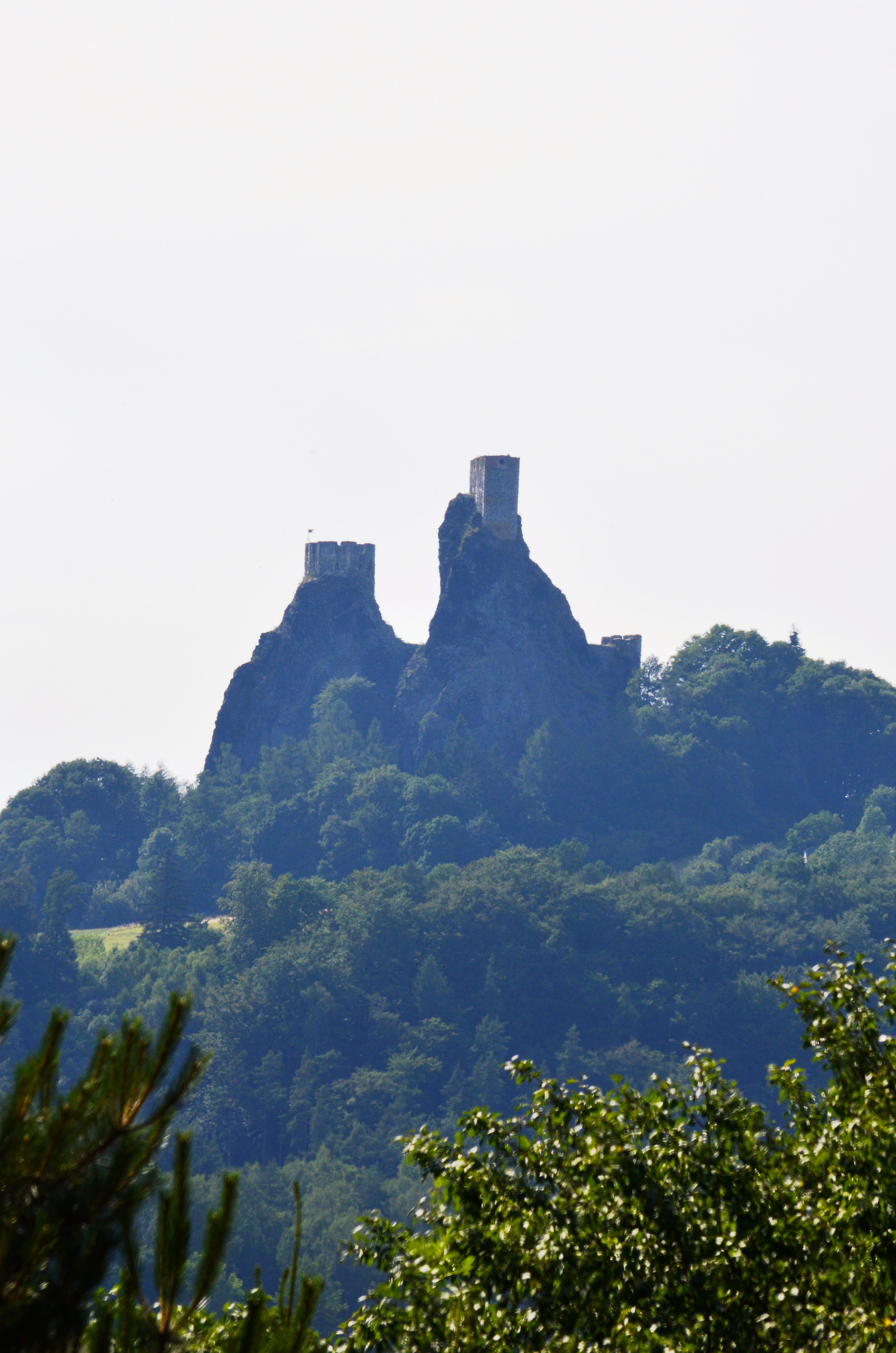 Trosky Castle (Hrad Trosky) is the ruin of a Bohemian castle built in 1380 south of Semily, Liberec Region, Czech Republic. It is one of the most famous Czech castles and is on the summits of two basalt volcanic plugs. On the lower peak is the two-storey structure called Baba (Old Woman) and on the higher outcrop is the four-sided structure known as Panna (Virgin). The castle is a landmark in the countryside known as Český ráj (Bohemian Paradise).The Scotch Mist Gallery contains many photographs of historic buildings, monuments and memorials of Poland and beyond.